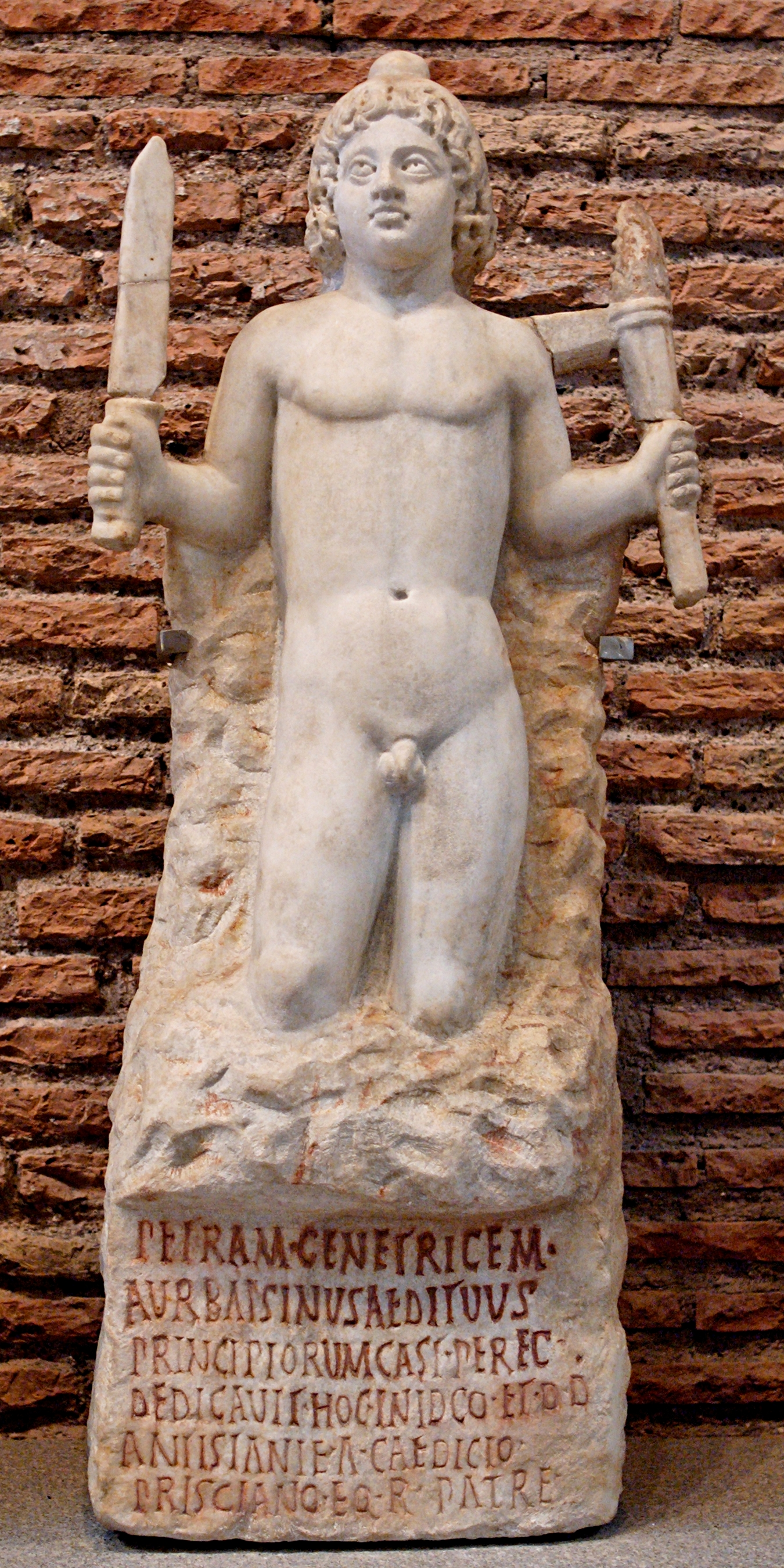 Mithras born from the rock (petra genetrix), statue dedicated by Aurelius Bassinus, ædituus (curator of the cult installations) of the principia of the castra peregrina of the Imperial horseguards (equites singulares). Marble, age of Commodus.